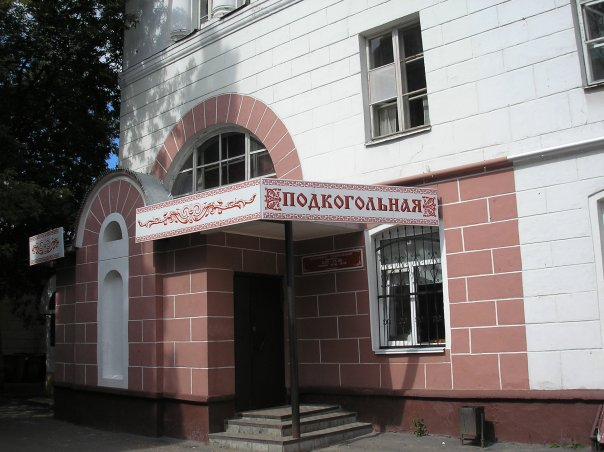 Cafe of Mari national cuisine, Yoshkar-Ola, Russia.